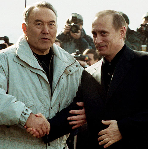 ALMATY. With Kazakhstan\'s President Nursultan Nazarbaev.